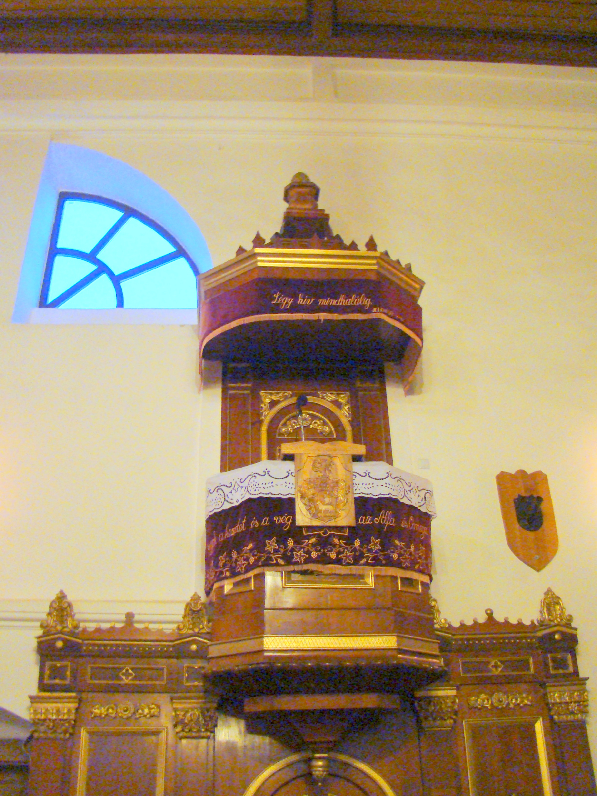 Reformed church in Diosig, Bihor county, Romania